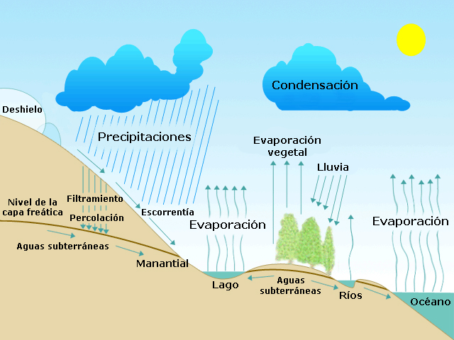 water